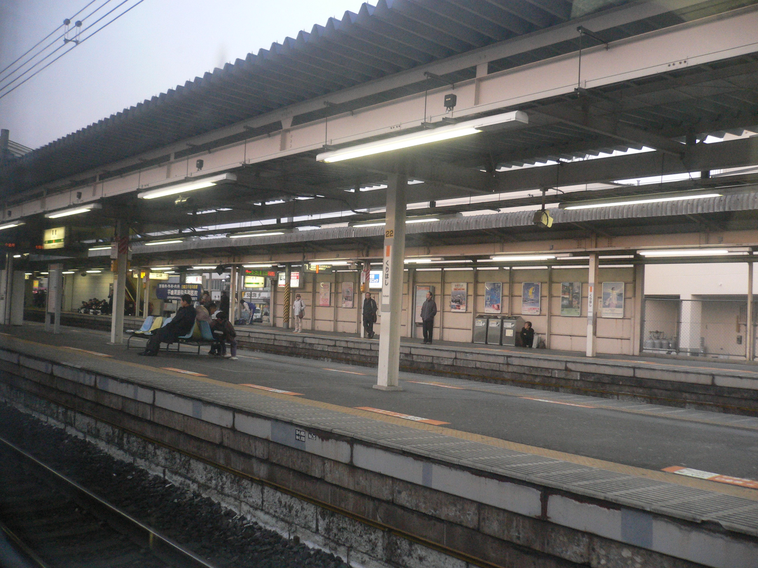 Kurihashi Station (栗橋駅), Kuraihashi T, Saitama P.